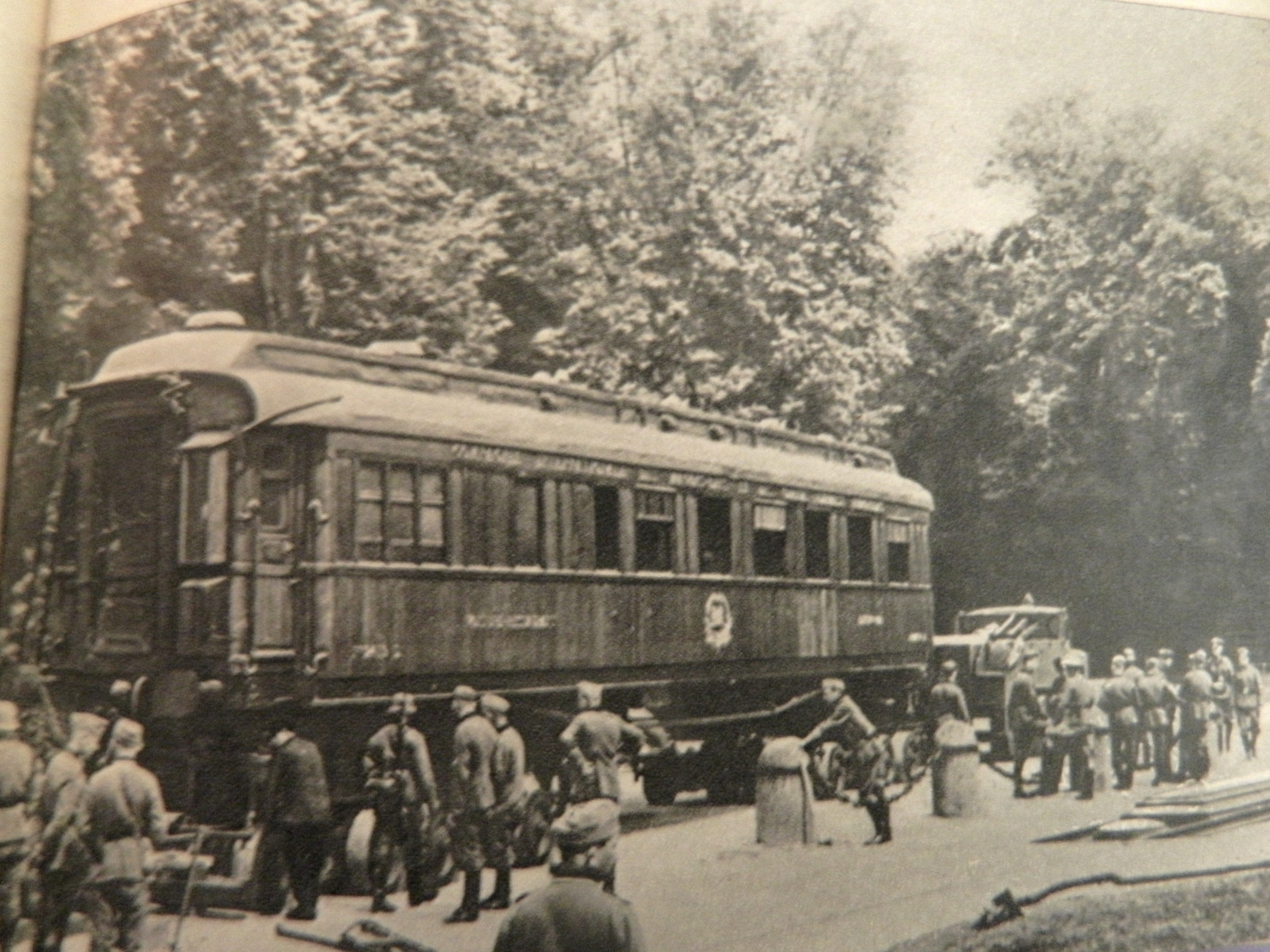 Ferdinand Fochs Railway Car, at the same location as after World War One, preparing for Nazigerman - French treaty , June 1940